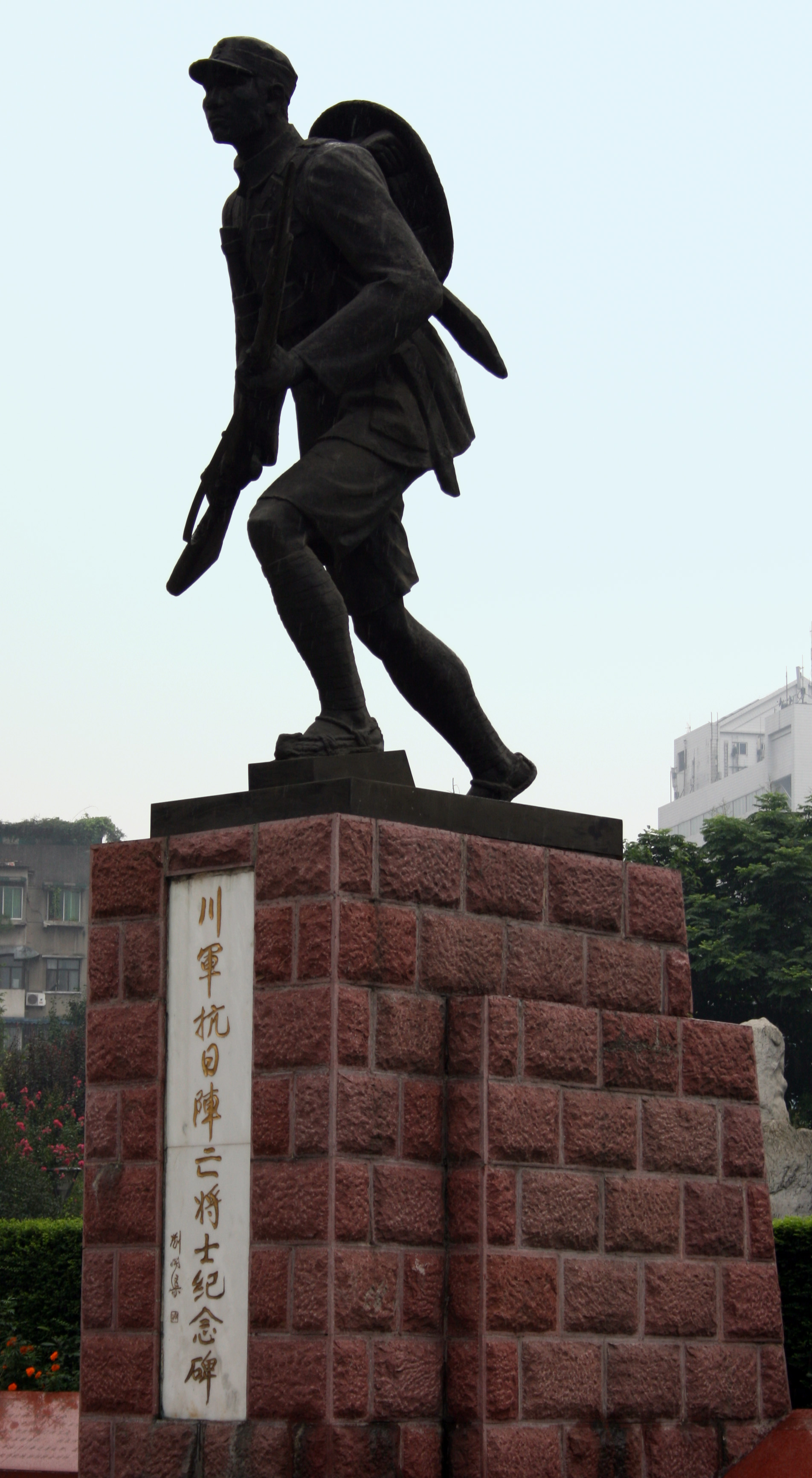 The statue of Sichuan Army, which is located in People's Park, Chengdu